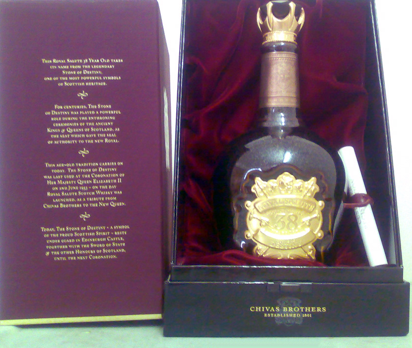 Chivas Royal Salute 38 Years Old - Stone Of Destiny